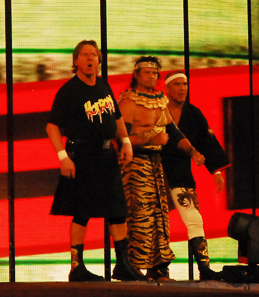 Rowdy Roddy Piper, Jimmy "Superfly" Snuka and Ricky "The Dragon" Steamboat descend the ramp to take on, and ultimately get defeated by, Chris Jericho.